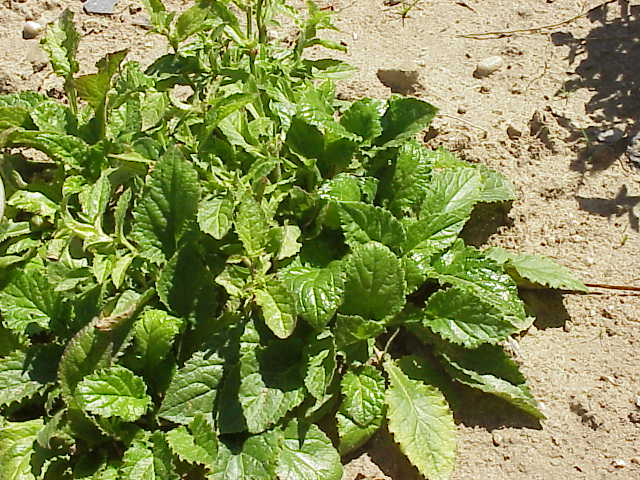 Species: Symhyandra hofmannii Family: Campanulaceae Image No. 1